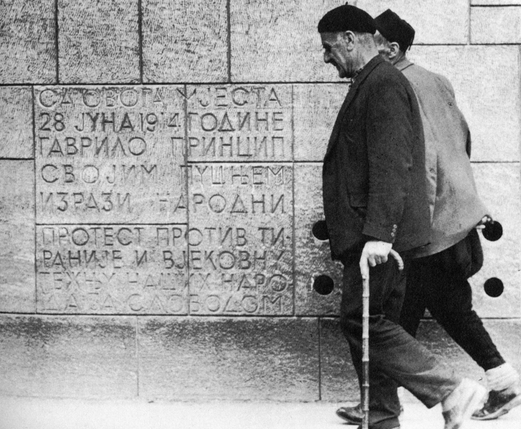 Gavrilo Princip memorial plaque in Sarajevo, early 1960s.